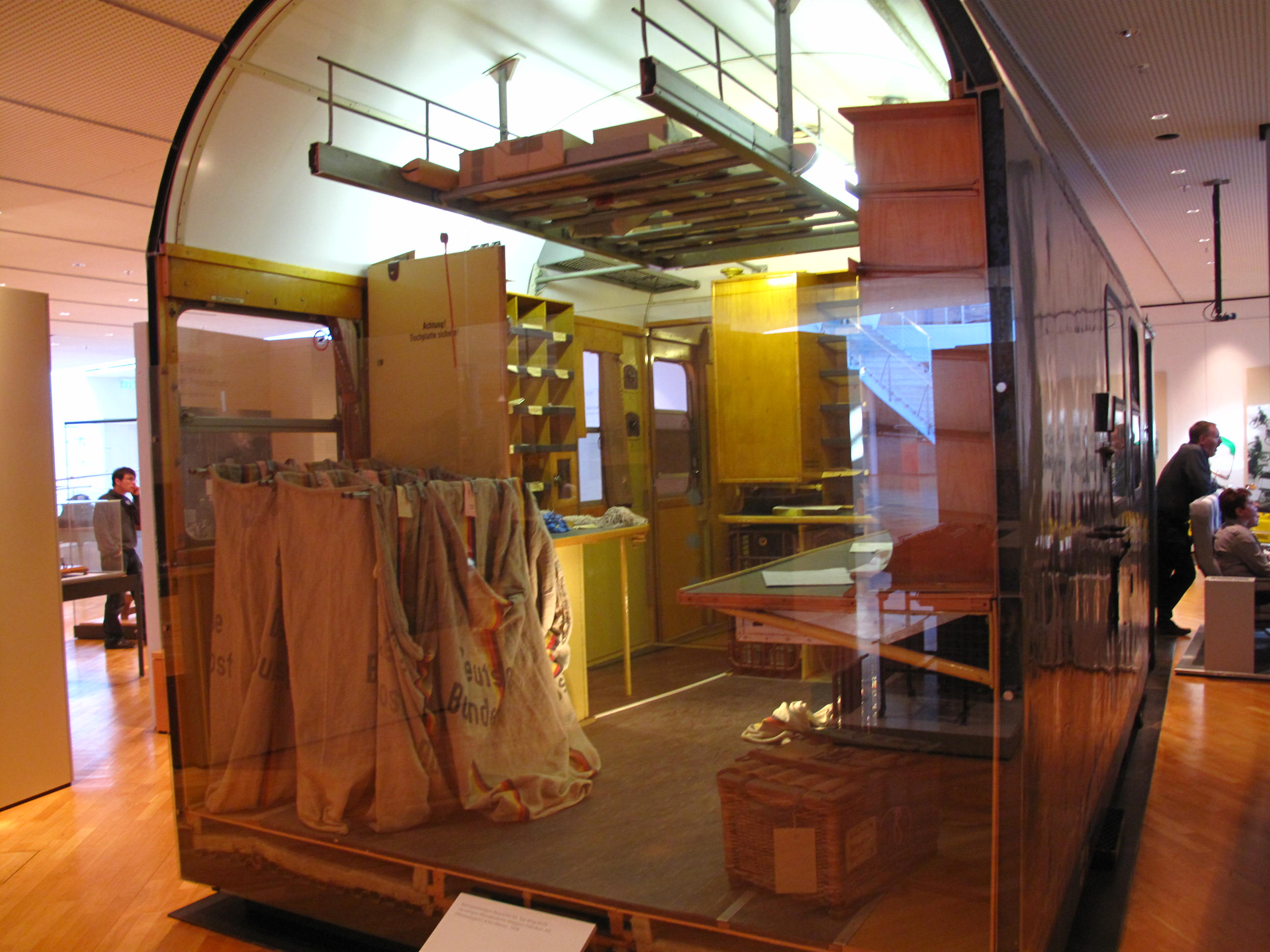 Interior of a German railway post office car, Museum for Communication (former Museum of Federal Postal Service), Frankfurt, state of the 1980's to 1990's